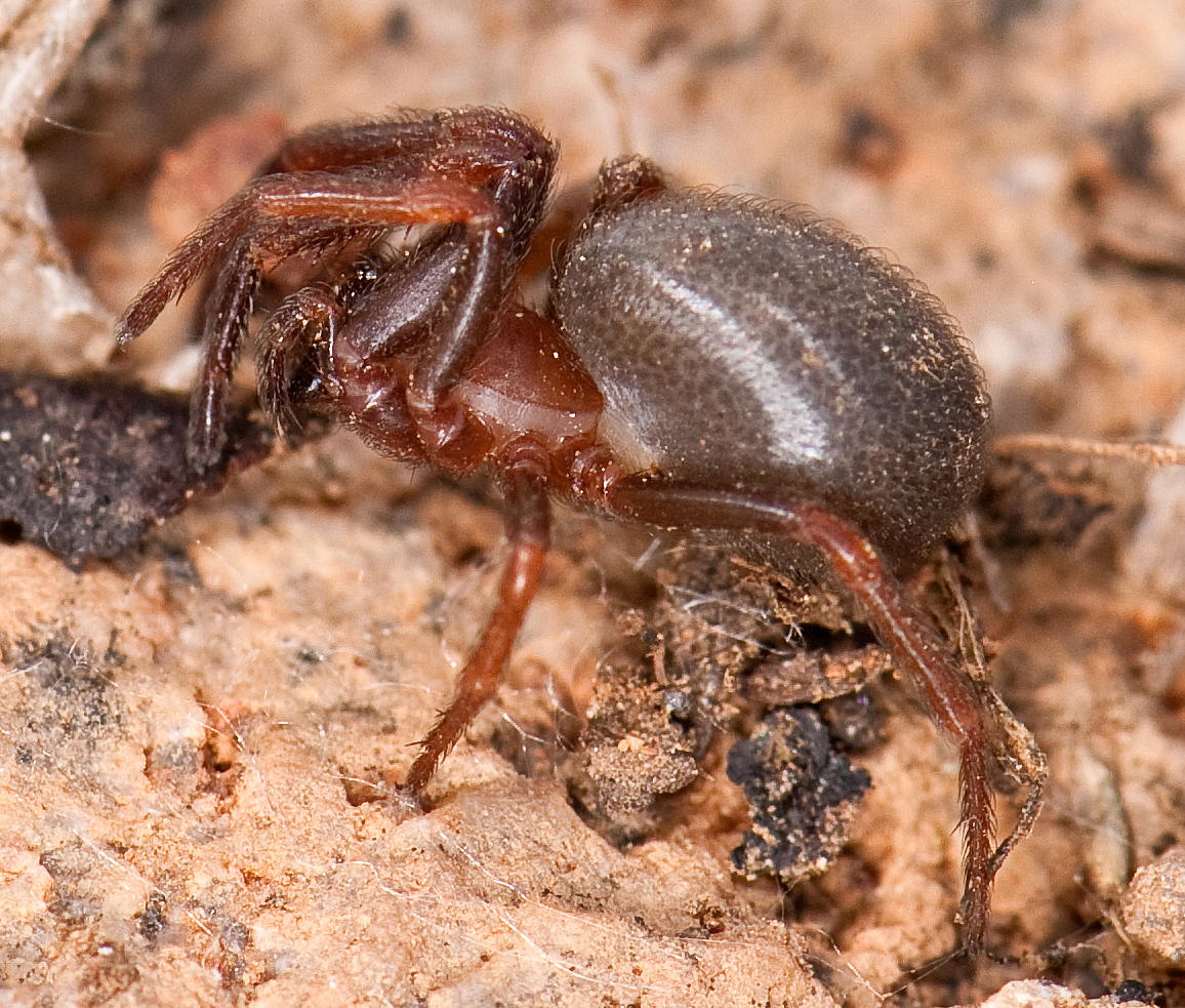 These spiders don't do much if you find them under rocks - difficult to photograph! This specimen could be one of several short-range endemic species found in southern CA. The generic revision can be found here....